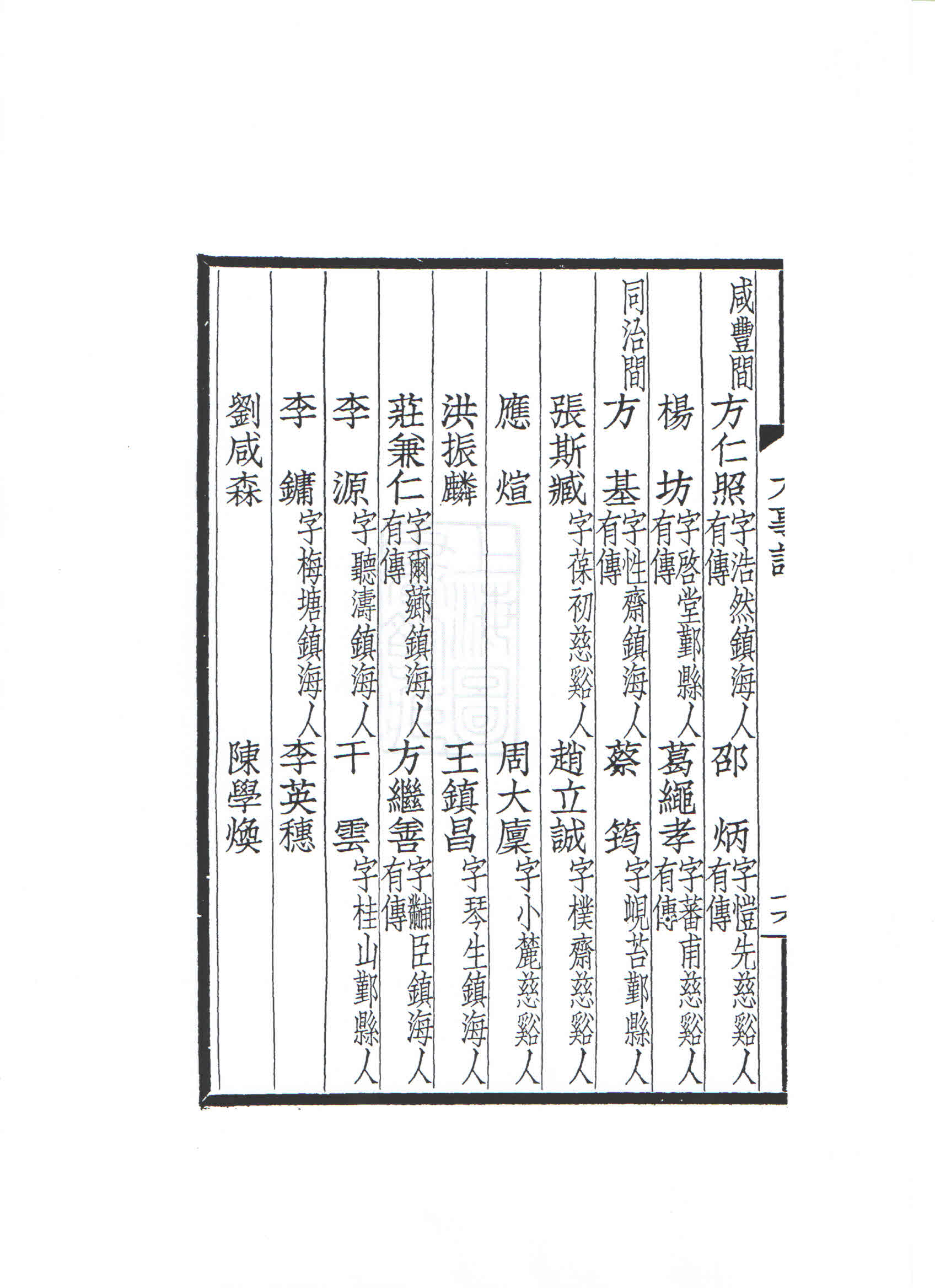 List of Si-Ming Guild Directors (page 2)